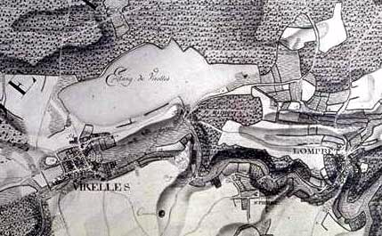 Histoire de l'étang de Virelles